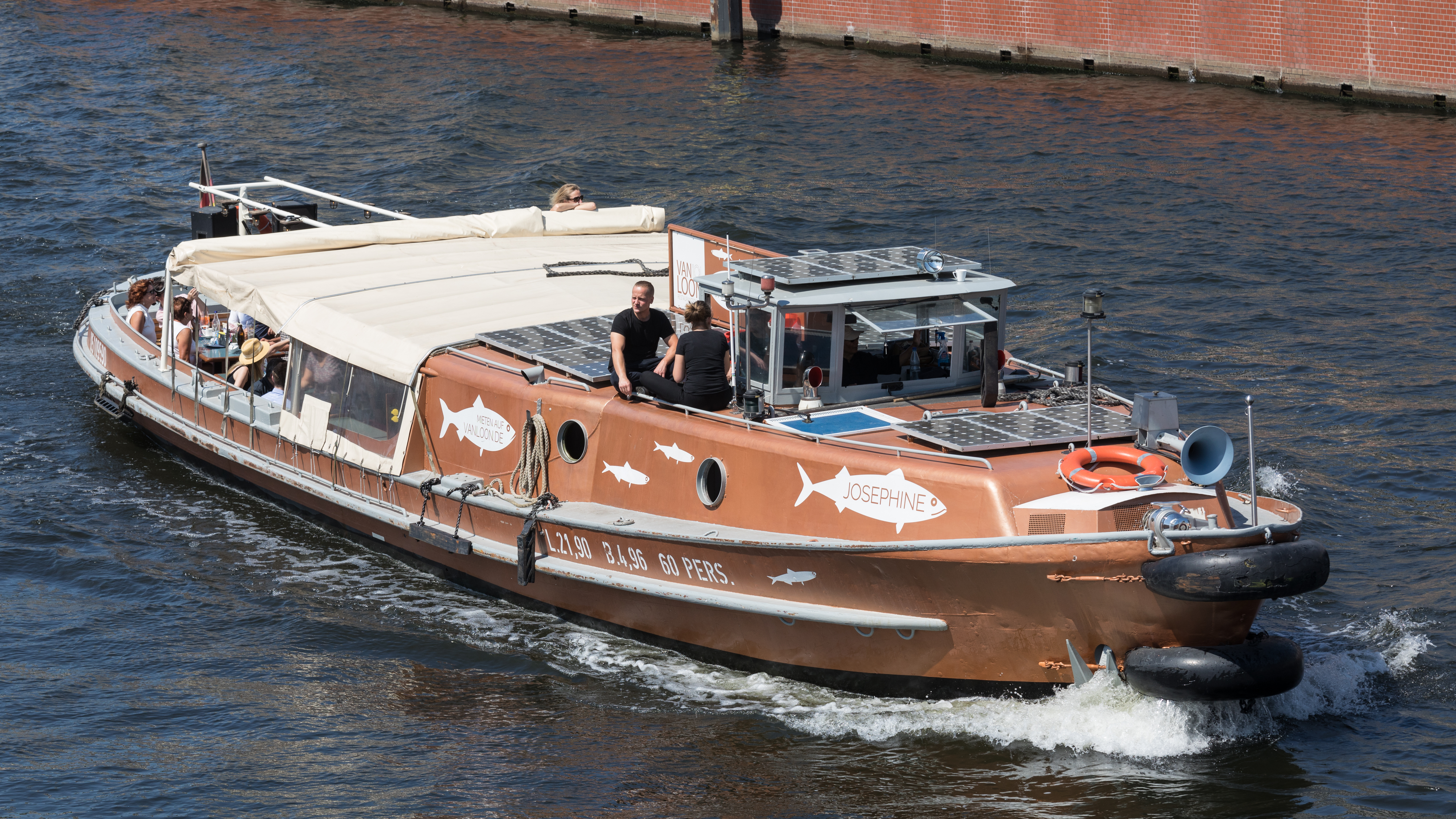 Ship Josephine ENI 05109590 - on Spree, Berlin